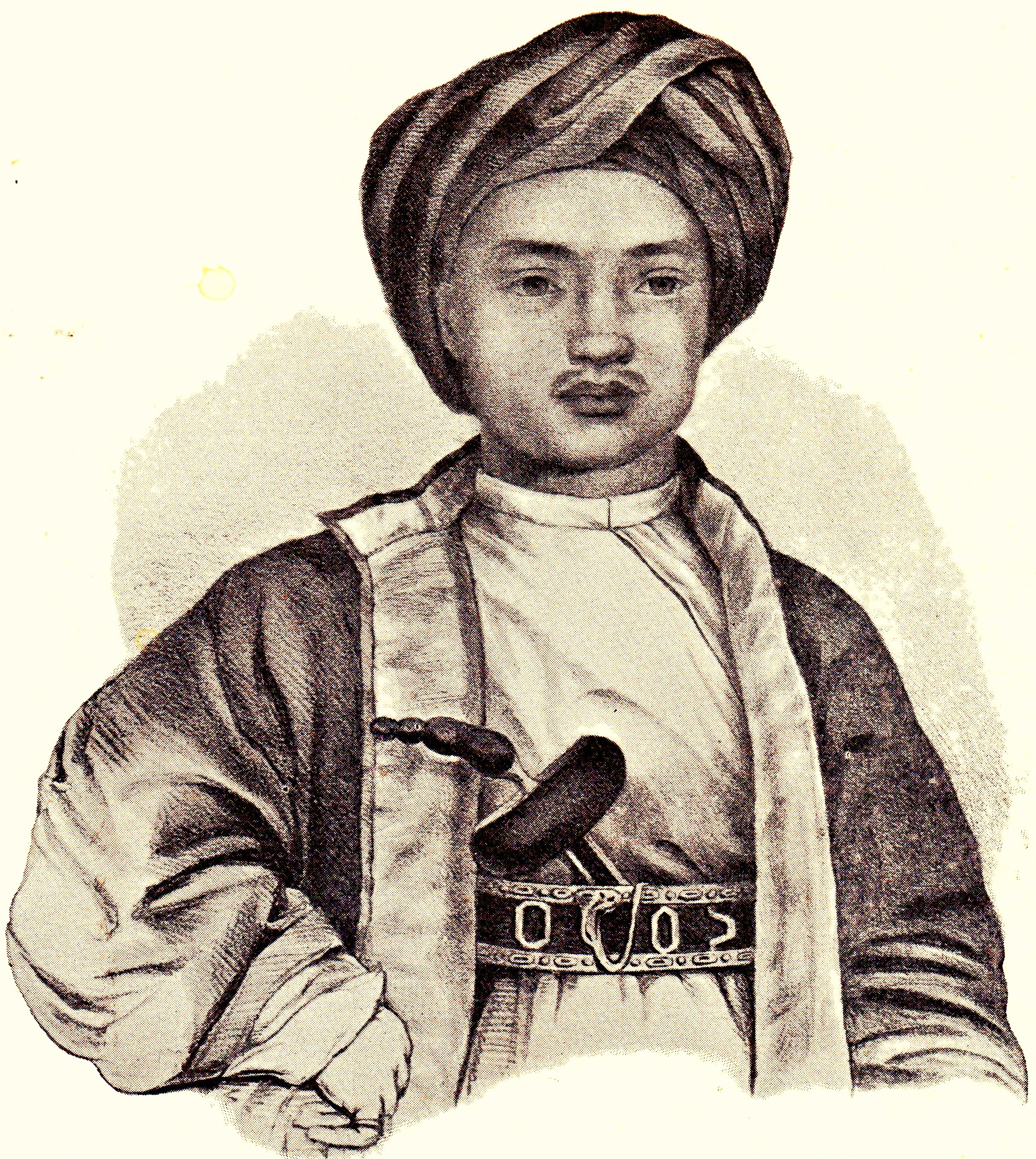 Sentot, opperbevelhebber van Diepo Negoro